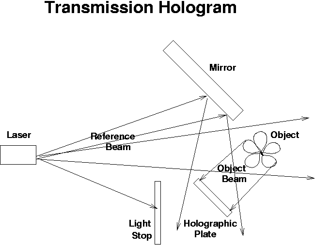 Holografia